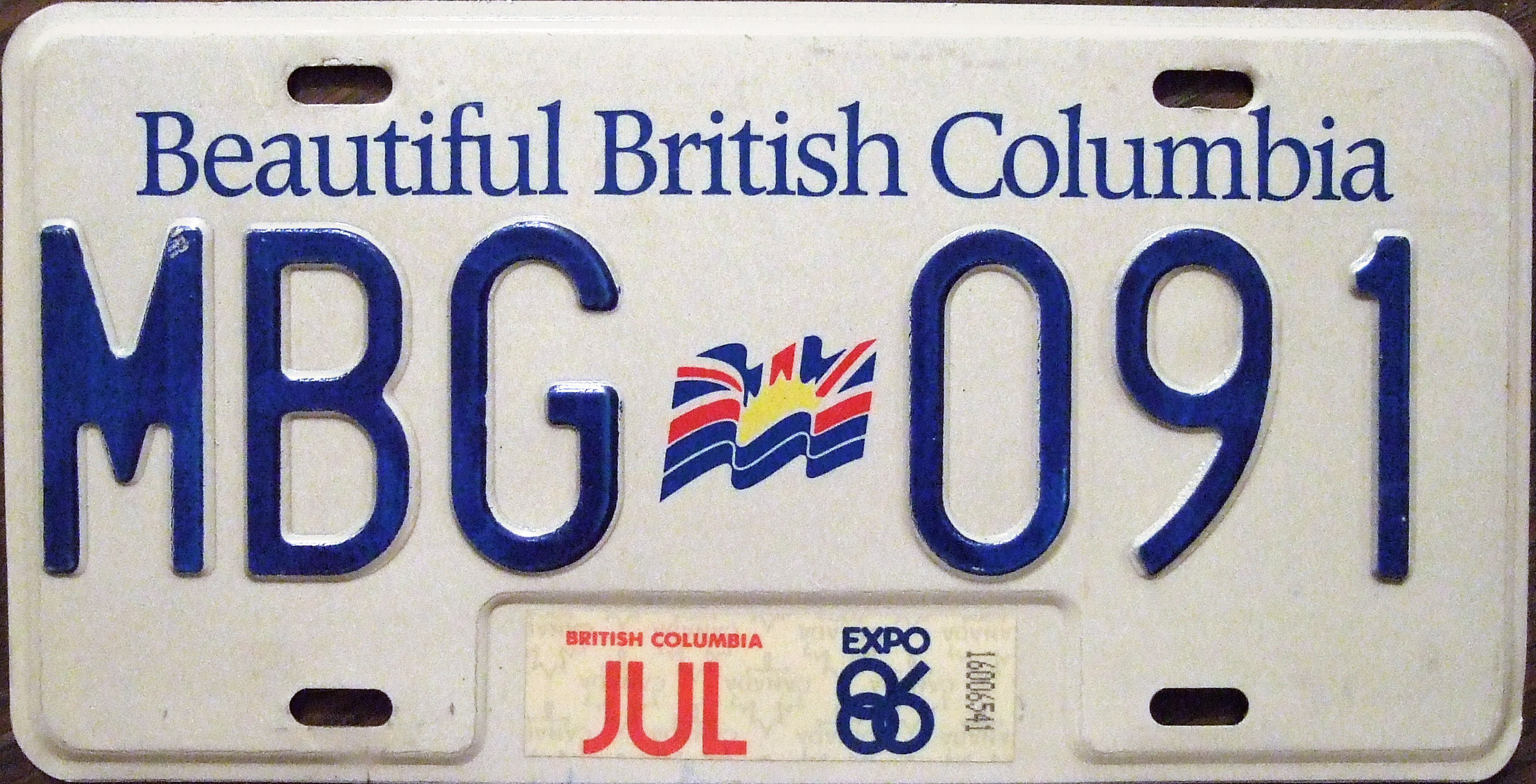 British Columbia license plate first issued with EXPO 86 sticker. The slogan BEAUTIFUL would now be added before the provincial name.